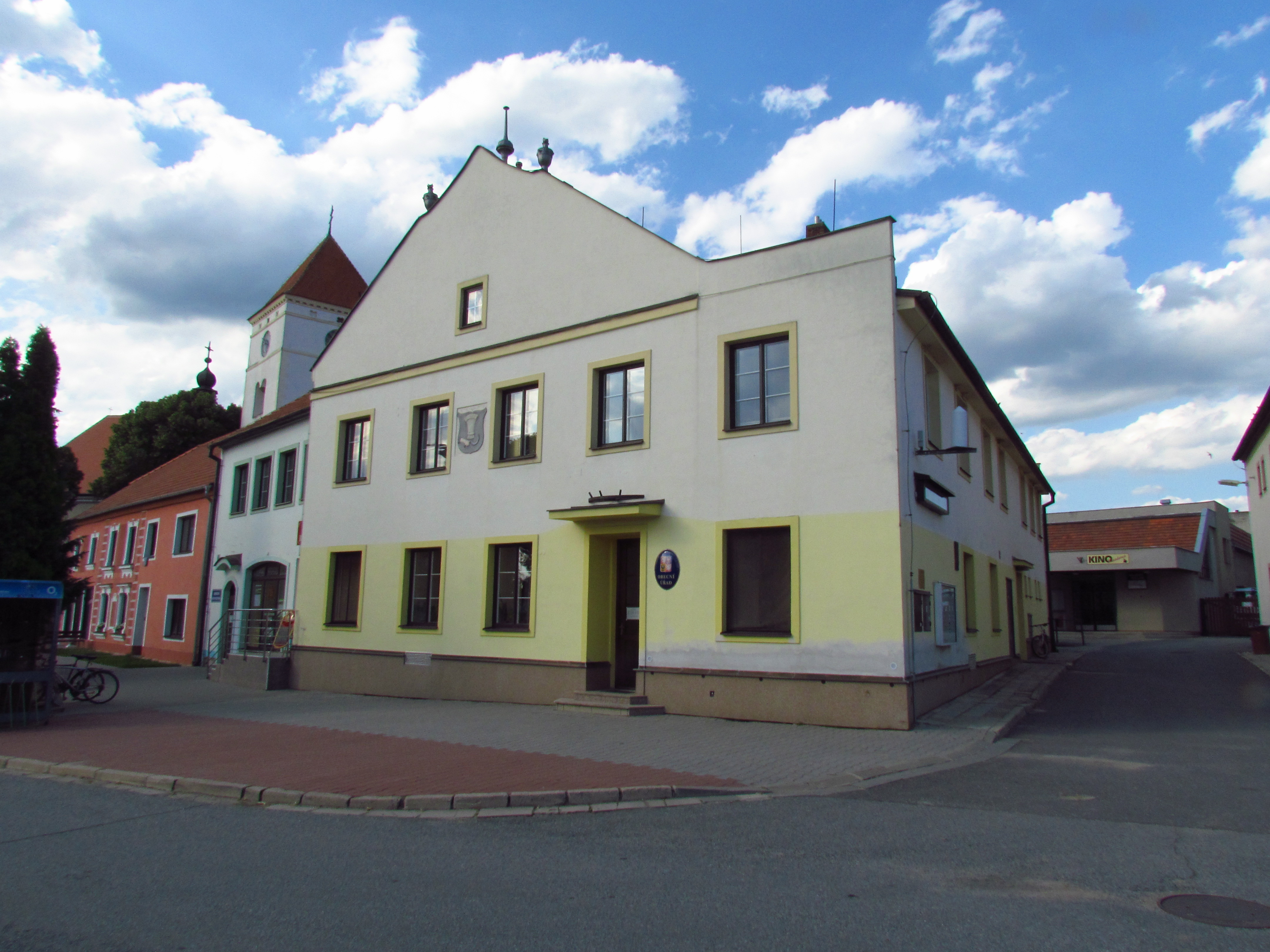 Municipal offices in Rouchovany, Třebíč District.